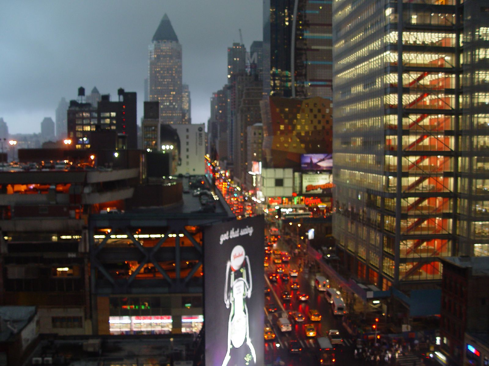 A storm moves in from the west, as the northward view from my office window of Port Authority Bus Terminal and One Worldwide Plaza grows rain-slicked and ominous, yet also beautiful.